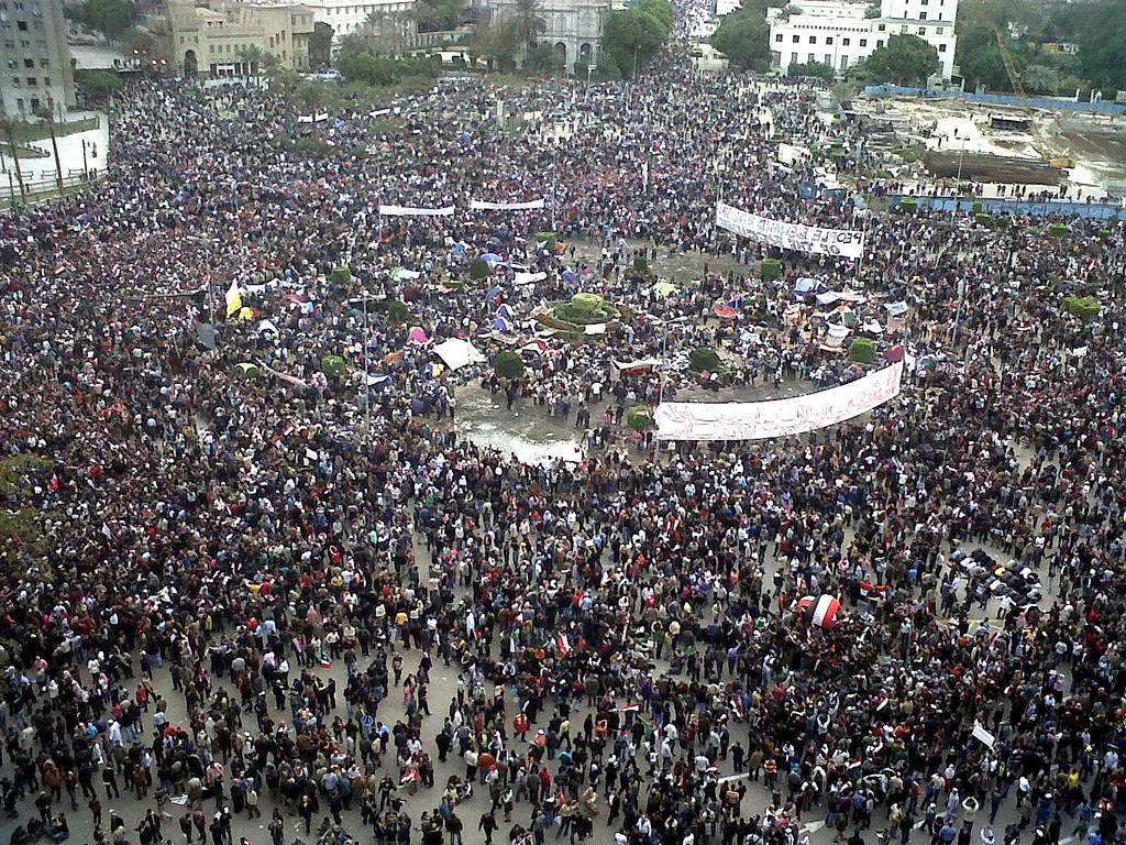 2011 Egyptian protests: Friday of Departure: Tahrir Square Hundreds of Thousands in Tahrir Square: Photographed By: Mona sosh License on Flickr (2011-02-07): CC-BY-2.0 Flickr tags: Egypt, Cairo, Jan25, Tahrir square